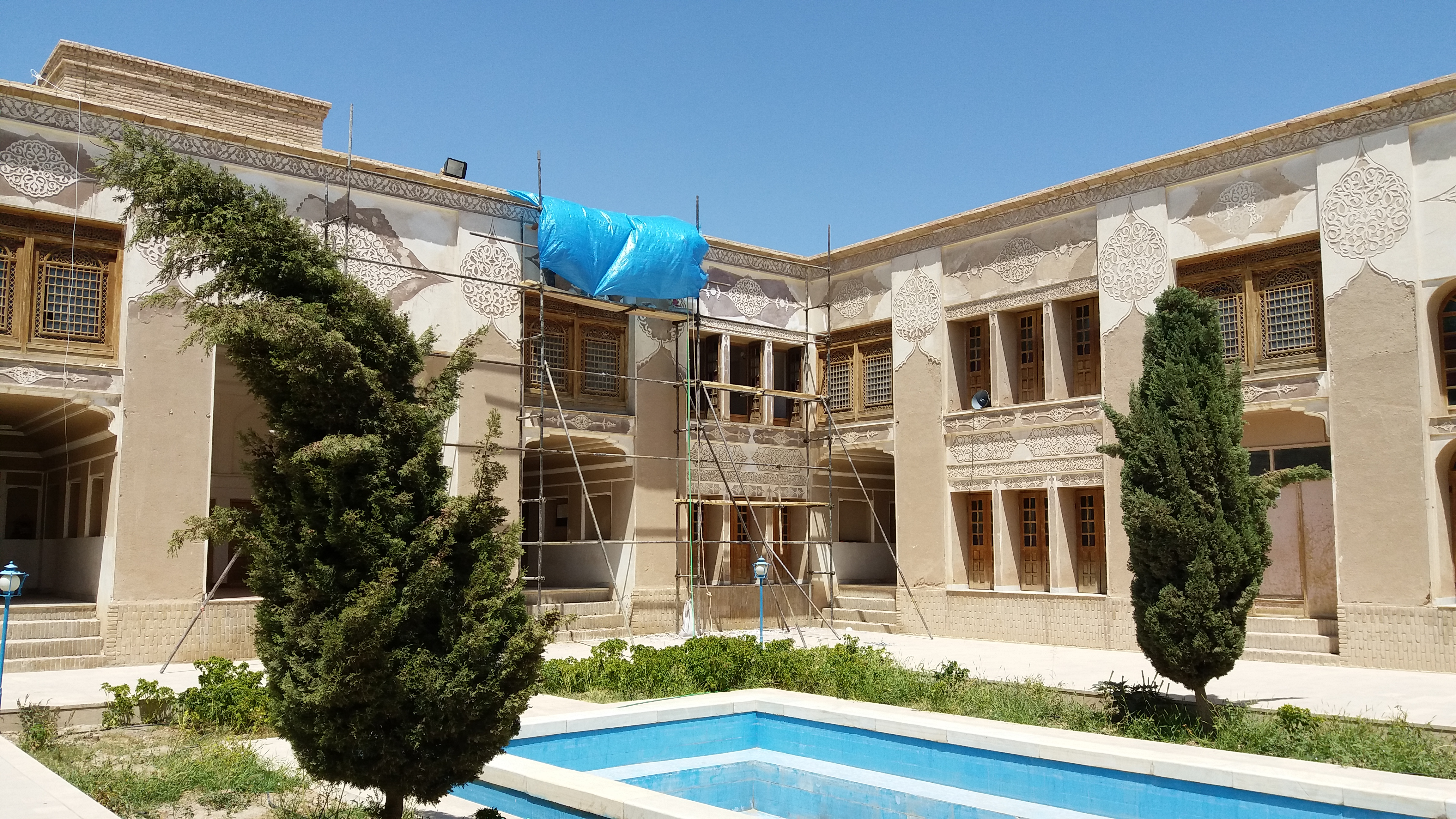 Emarat Mosakhani Shahr babak